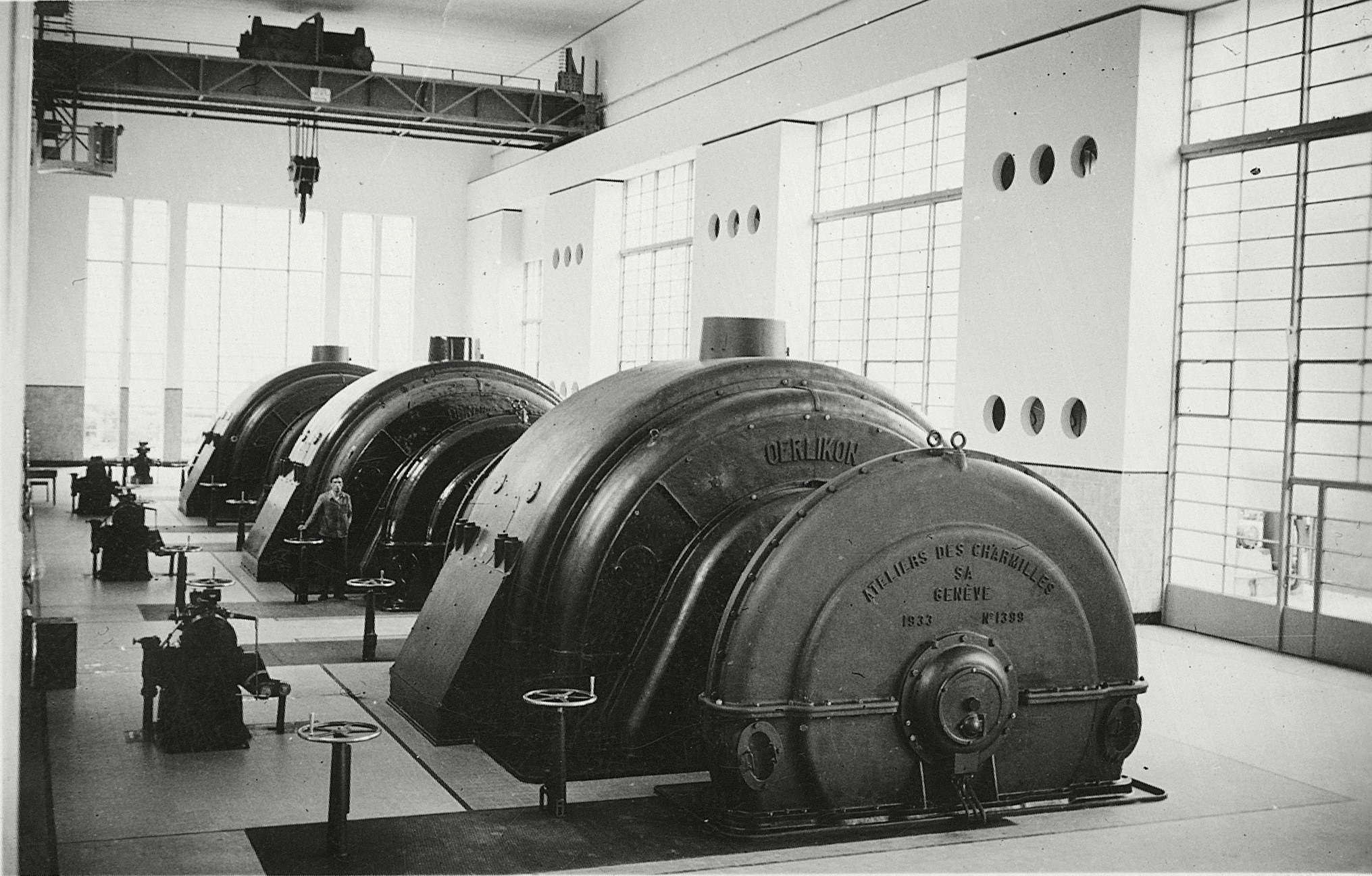 The three generators of the Chandoline Station of the Grande Dixence power plant. Each generator, built by Maschinenfabrik Oerlikon, was powered by two pelton wheels.